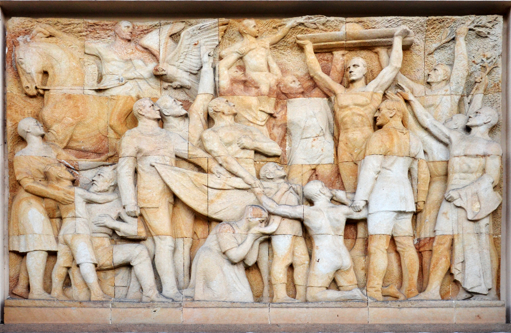 Relief I by Jaroslav Brůha, Czech sculptor, Tyršův dům, Sokol, Prague